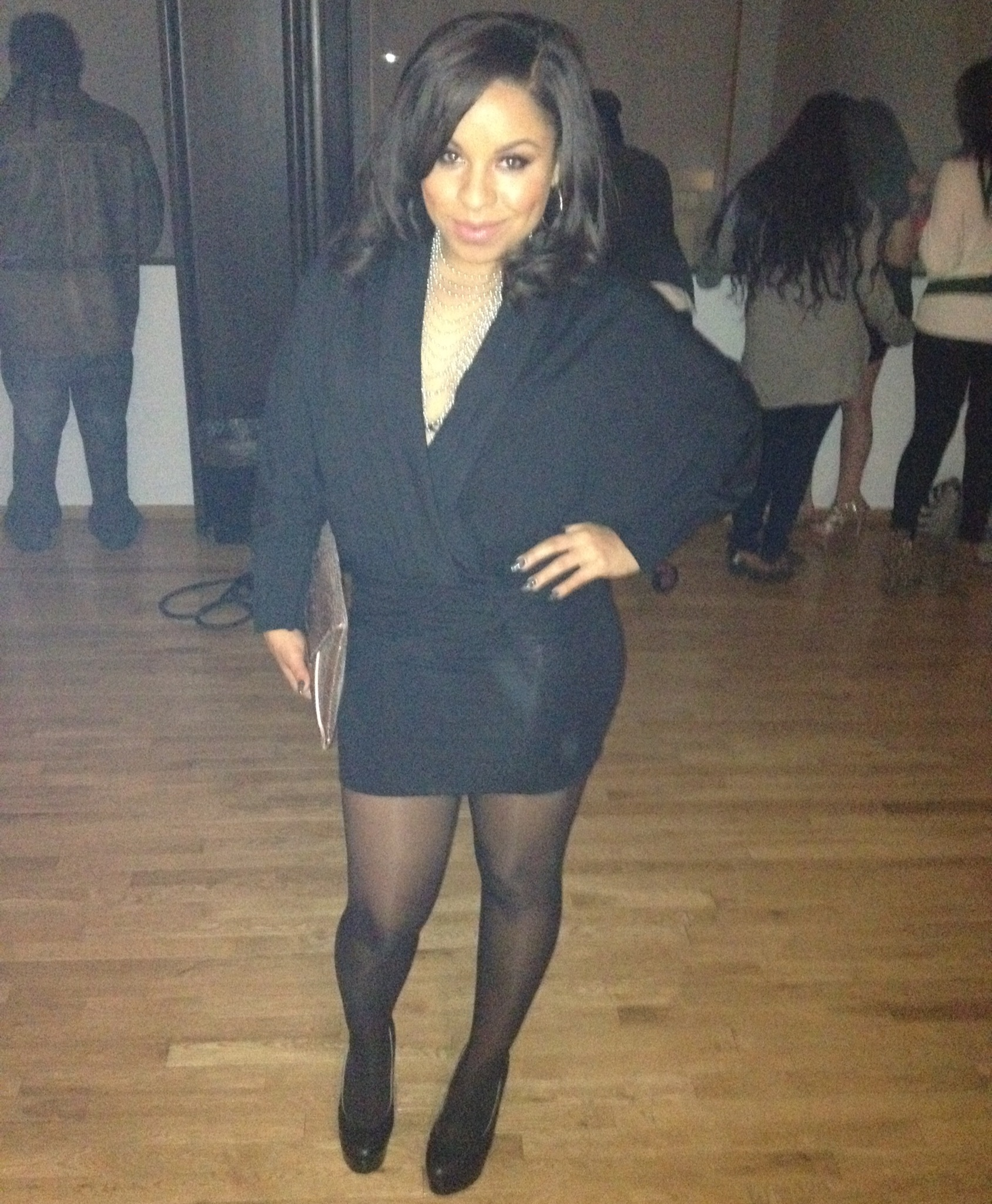 Rapper Lady Ile